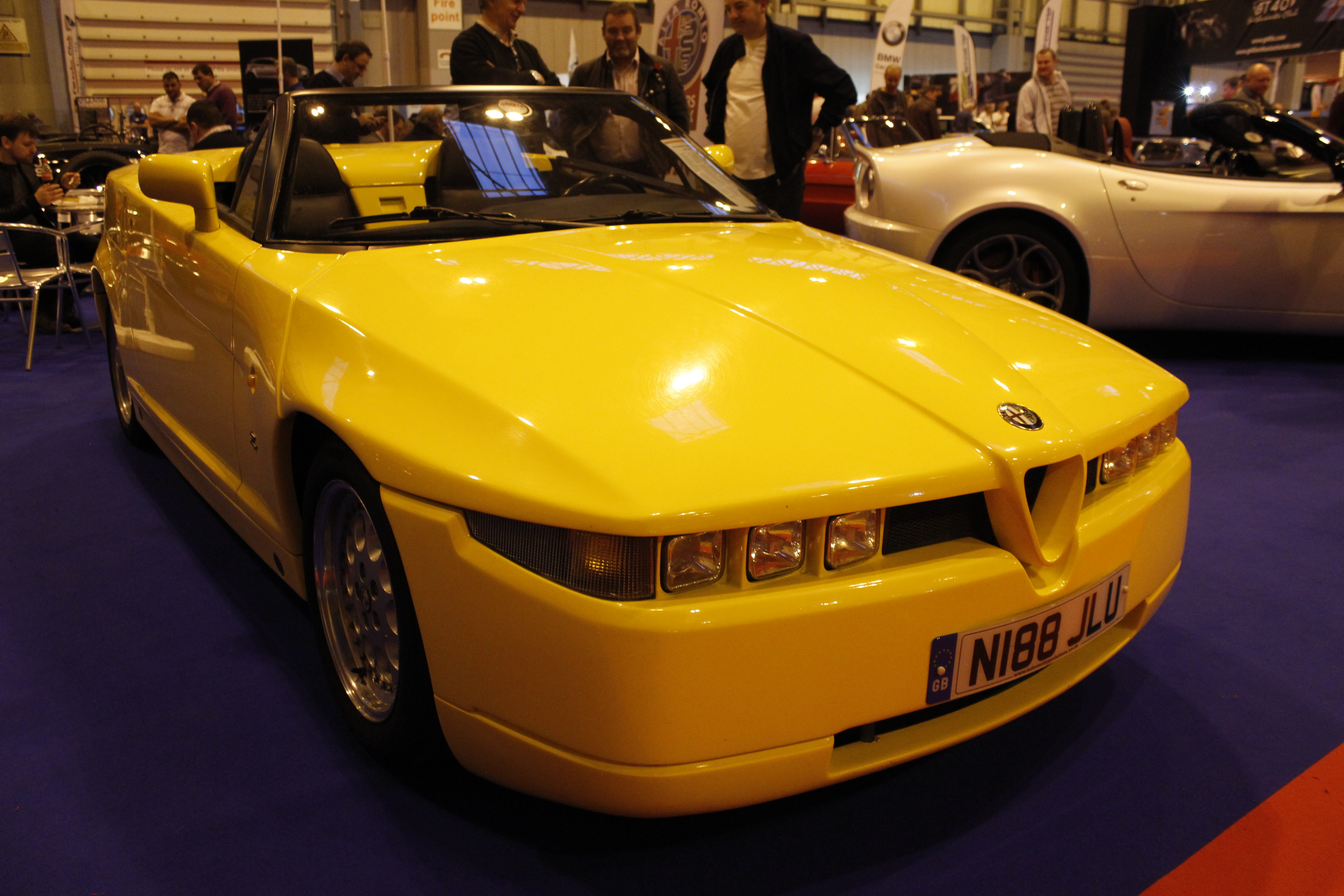 NEC Classic car show 2015